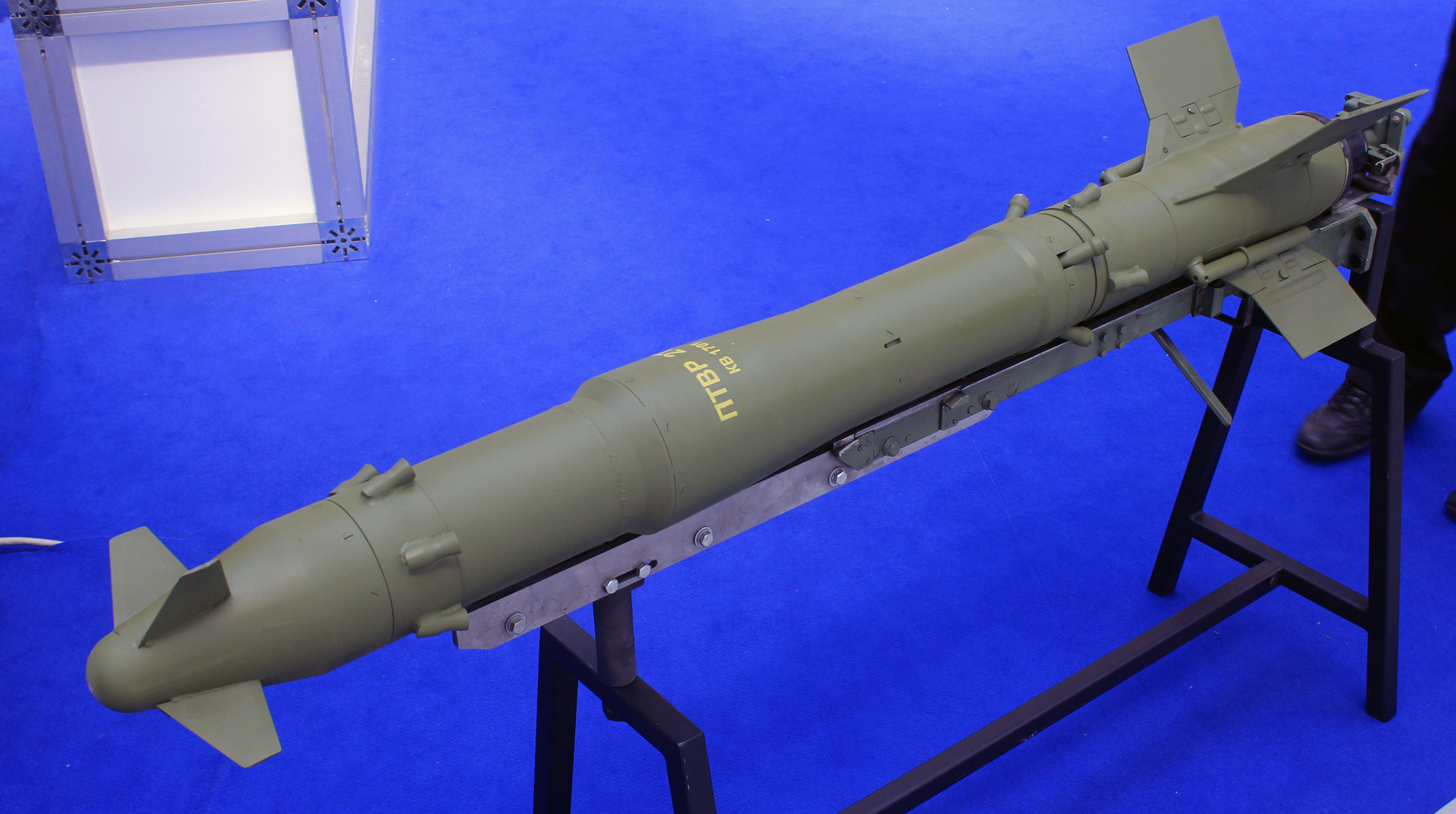 Serbian-made modified Malyutka wire-guided anti-tank missile on display at "Partner 2017" military fair.